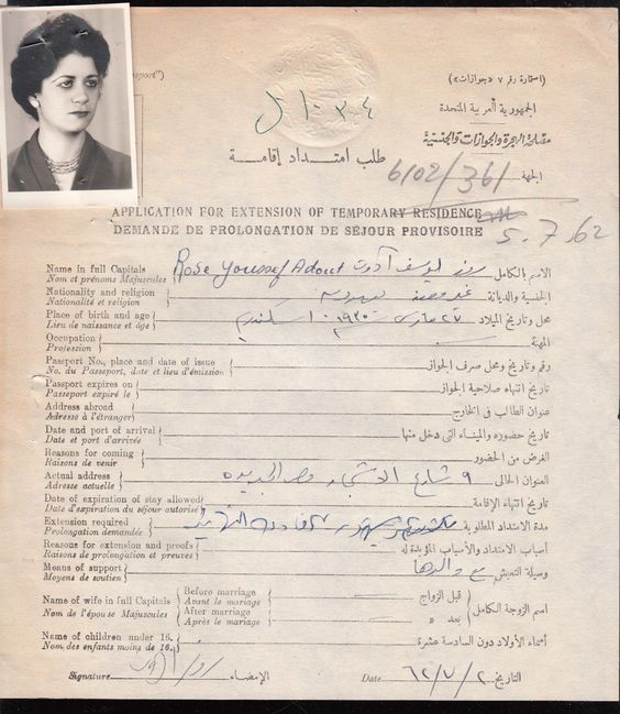 Residence permit Egypt 1962